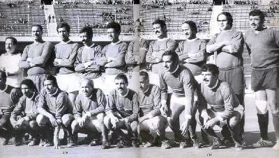 The FLN football team in its jubilee in july 5 stadium in 1974. From Left to Right: Standing:Sellami(therapist)-Doudou-Zouba-Rouai-Amara-Zitouni-M.Soukane-Bouricha-Oudjani-Boubekeur Seated: Mazouz-Kerroum-Benfadah-Bouchouk-A.Soukane-Kermali-Mekhloufi-Oualiken